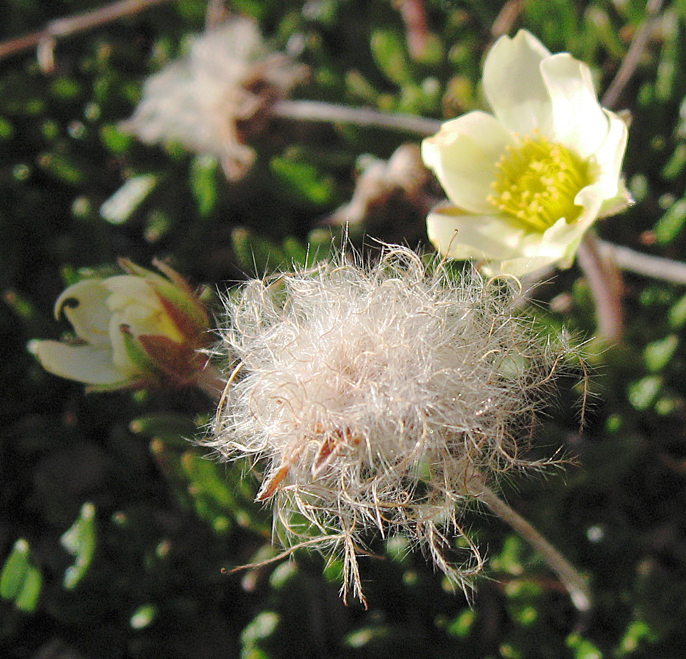 Dryas integrifolia photographed near Upernavik, Greenland.